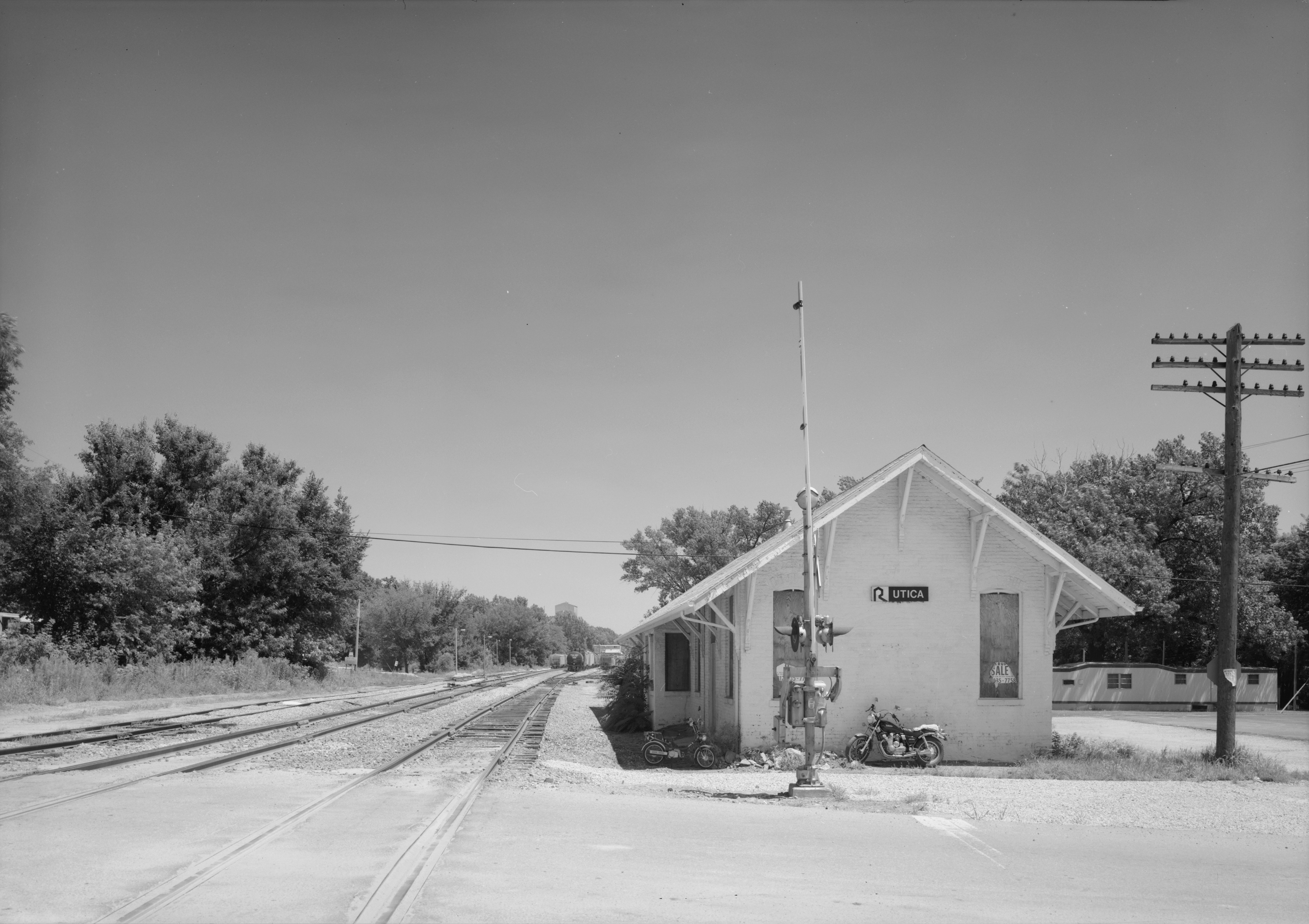 West and north facades of depot looking southeast